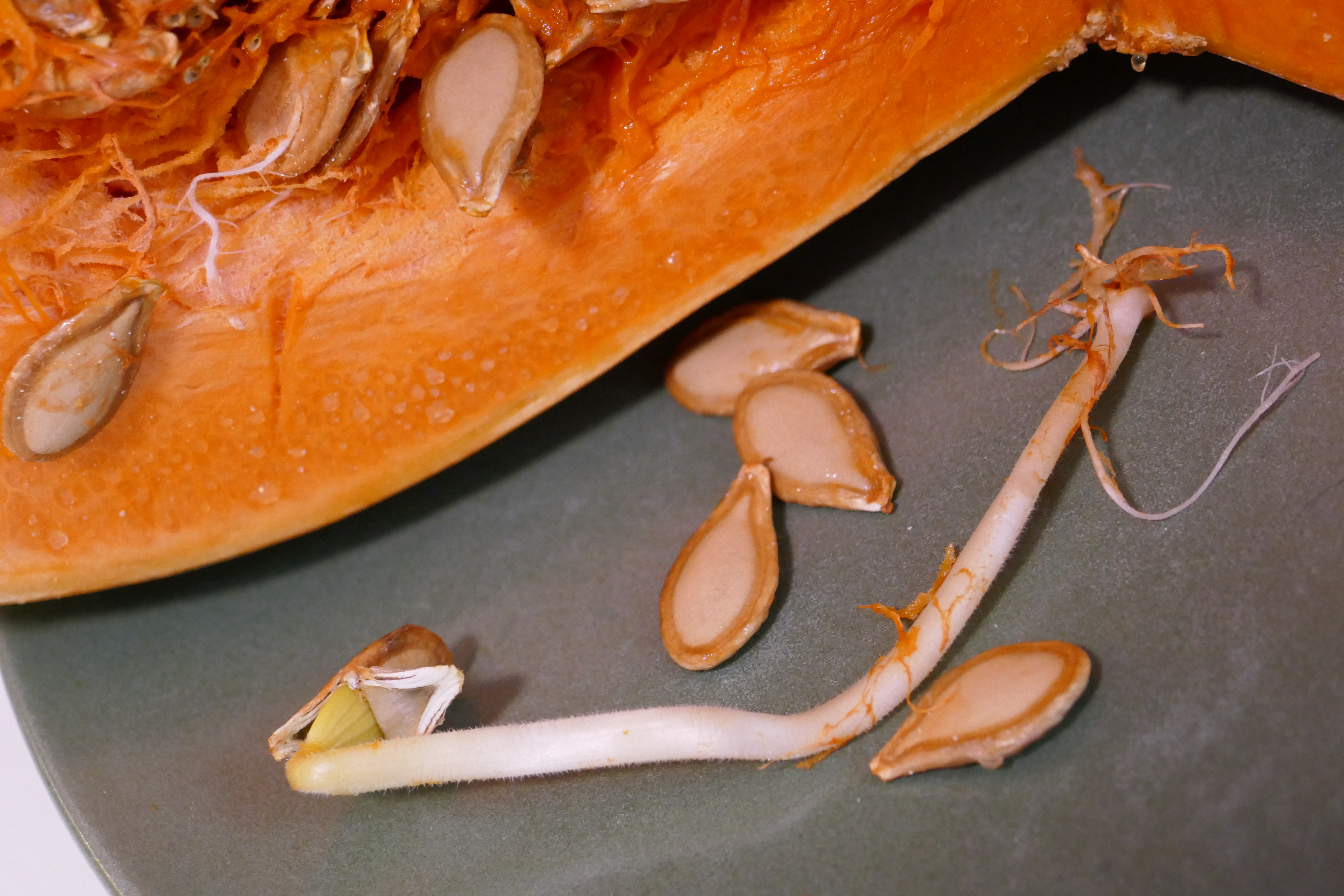 Cucurbita maxima and inside seedlings at the end of winter time. France.